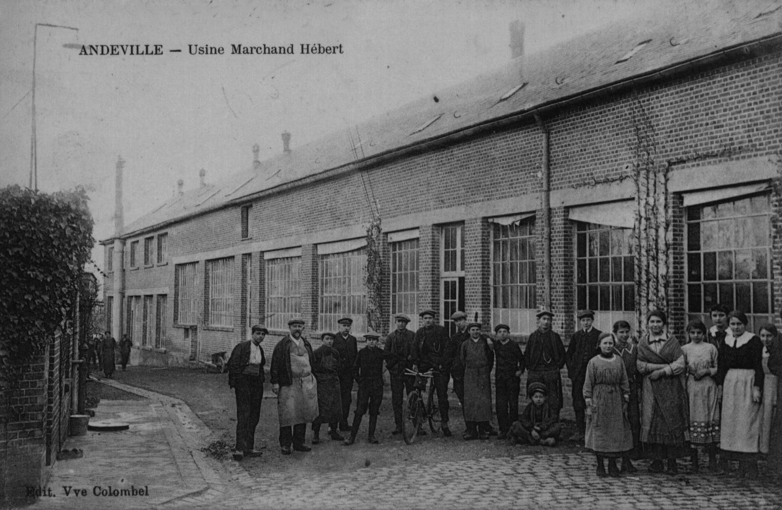 usine Marchand heberte de nacre a andeville